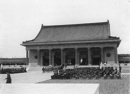 State Foundation Martyrs Shrine in Manchukuo